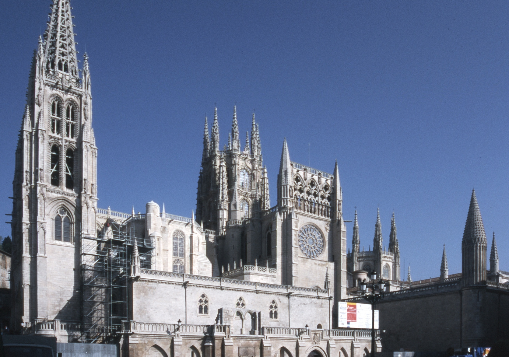 Kathedrale Burgos